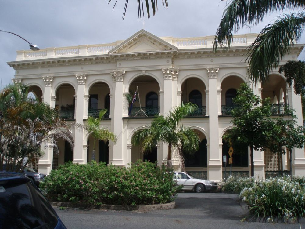 R Rees and Sydney Jones, from SE (2009)